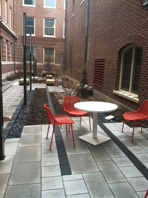 The renovated garden